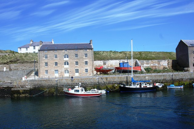 Burghead Harbour A fishing boat ,sailing vessel and converted warehouse at Burghead Harbour.